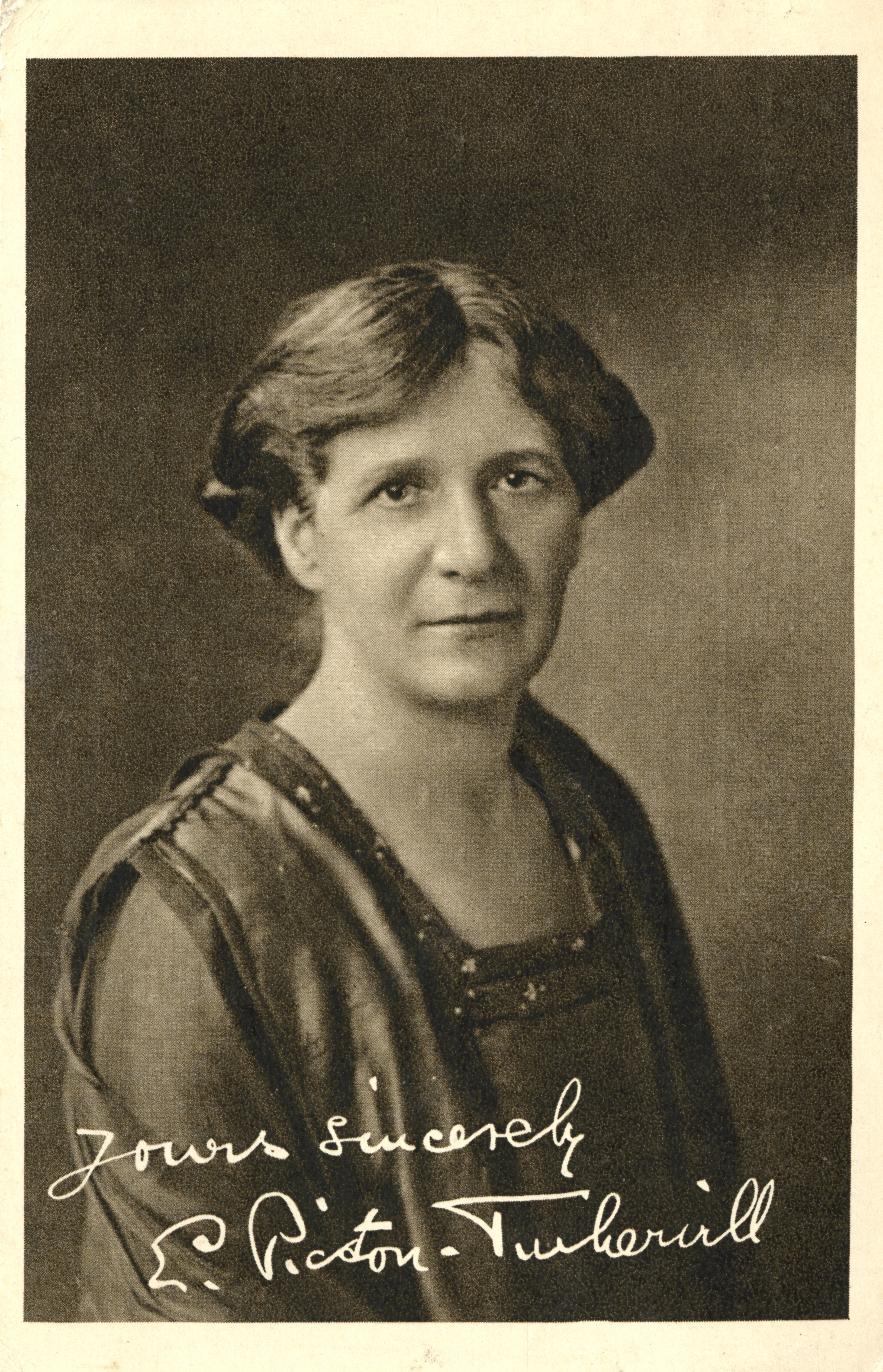 TWL.2000.157Postcard, printed, cardboard, monochrome photographic studio portrait of 'Miss EDITH PICTON-TURBERVILL', head and shoulders, front-profile, white border and text, printed inscription front: 'Yours sincerely E Picton Turbervill', printed inscription reverse: 'NORTH ISLINGTON PARLIAMENTARY ELECTION, 1922. You can help to secure the return of THE LABOUR CANDIDATE Miss EDITH PICTON-TURBERVILL, OBE, at any of the following Committee Rooms ...'.